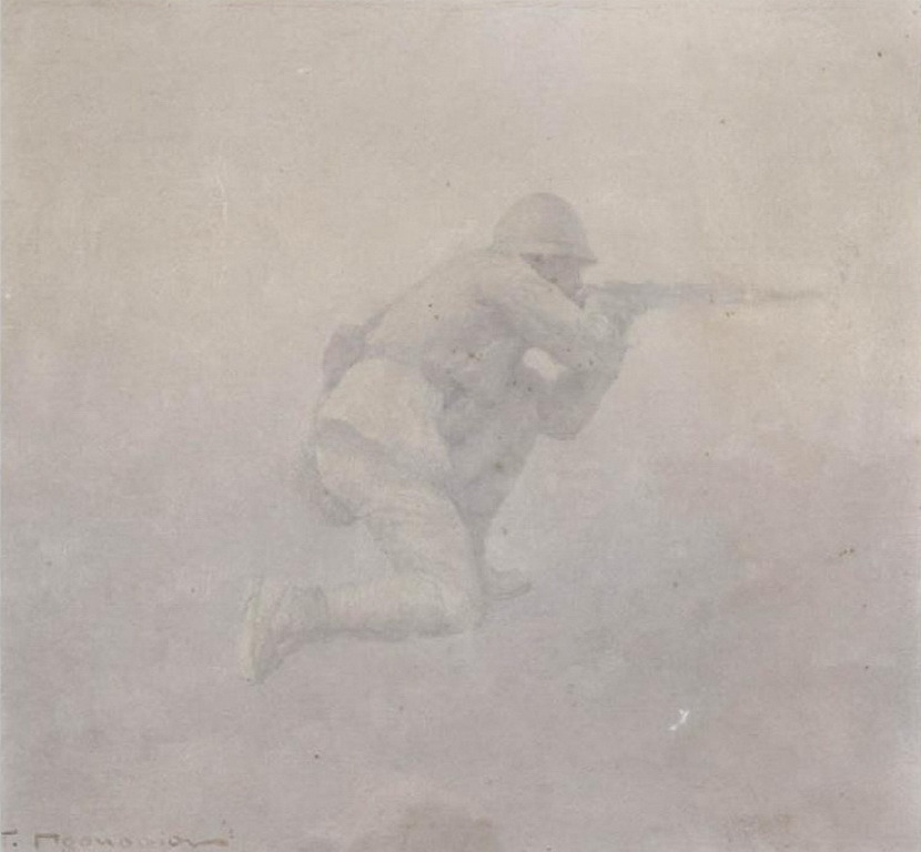 SharpshooterTürkçe: Yunanların gözünden Türk Kurtuluş Savaşı'nın Batı Cephesi ("Küçük Asya Felaketi")